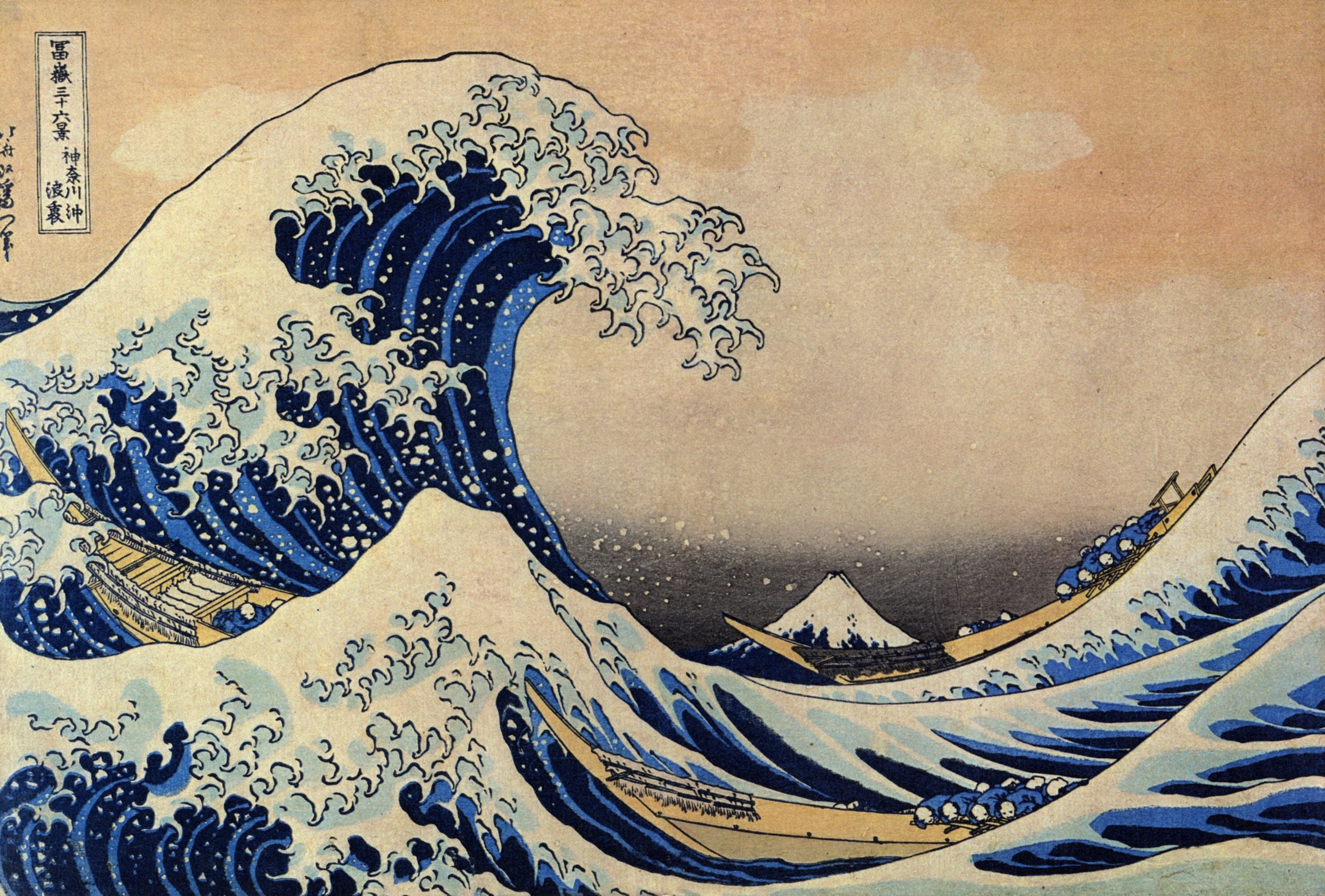 Modern recut copy of "Behind the Great Wave at Kanagawa" (神奈川沖波裏), from 36 Views of Mount Fuji, Color woodcut. Although it is often used in tsunami literature, there is no reason to suspect that Hokusai intended it to be interpreted in that way. The waves in this work are sometimes mistakenly referred to as tsunami (津波), but they are more accurately called okinami (沖波), great off-shore waves.